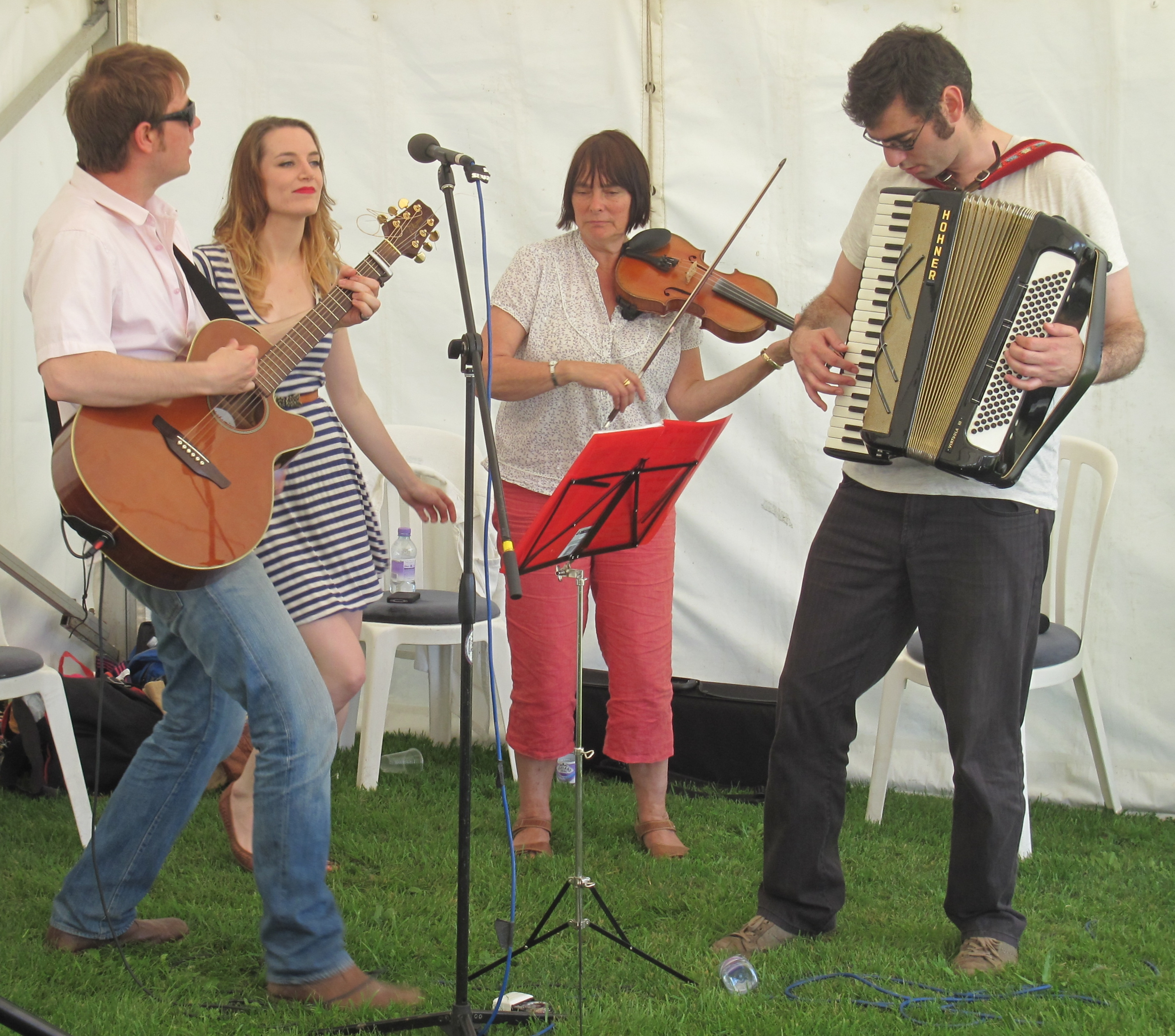 Saint Helier pilgrimage, Saint Helier, Jersey, 22 July 2012